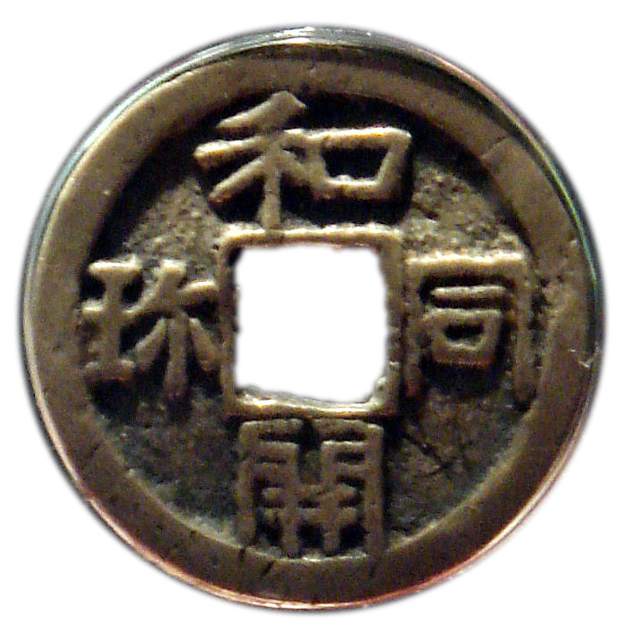 Wadokaichin_coin_8th_century_Japan